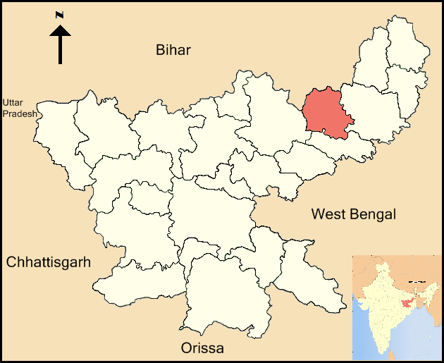 A locator map of Deoghar district, Jharkhand state, India